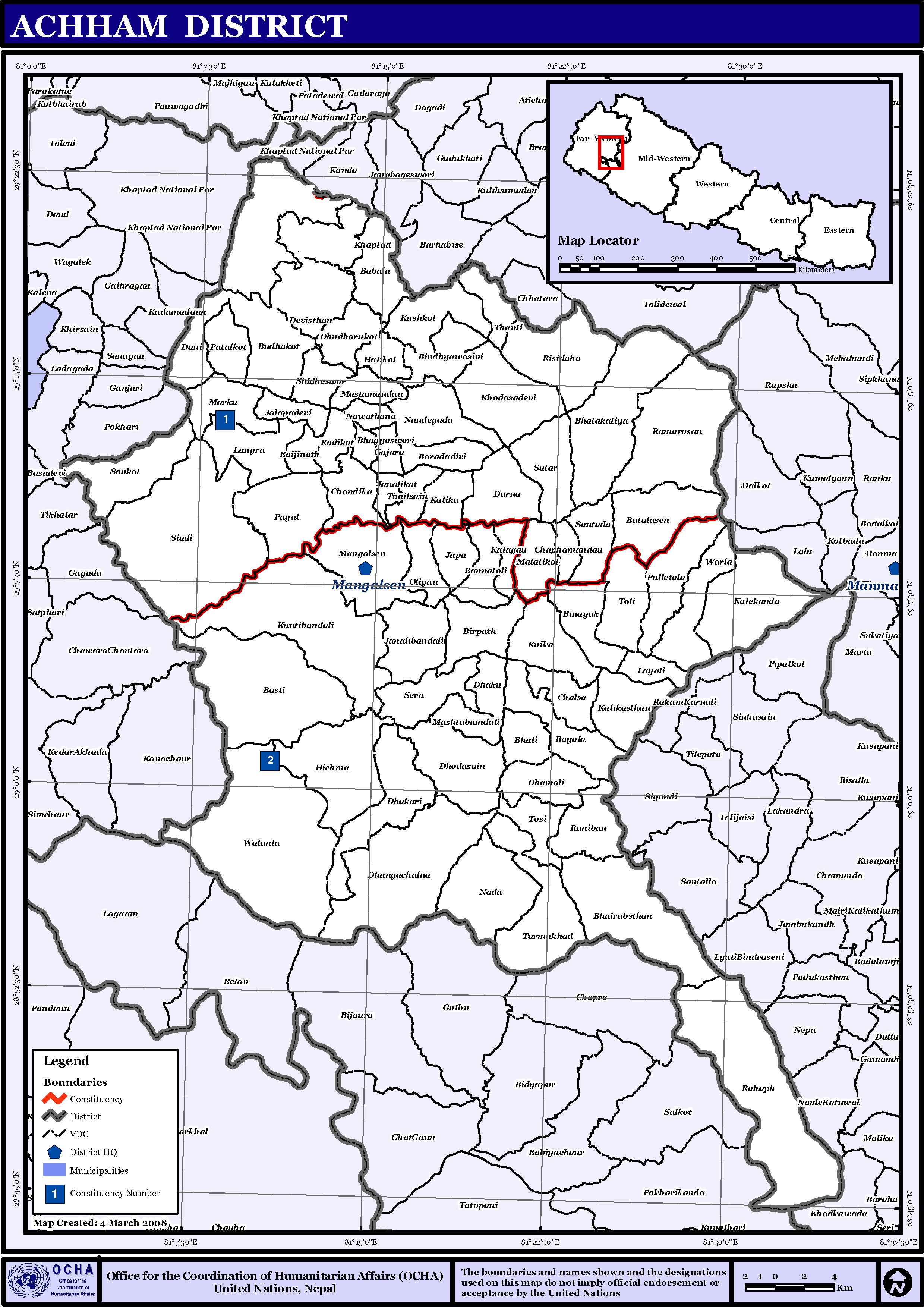 Map displaying Village Development Committees in Achham District, Nepal